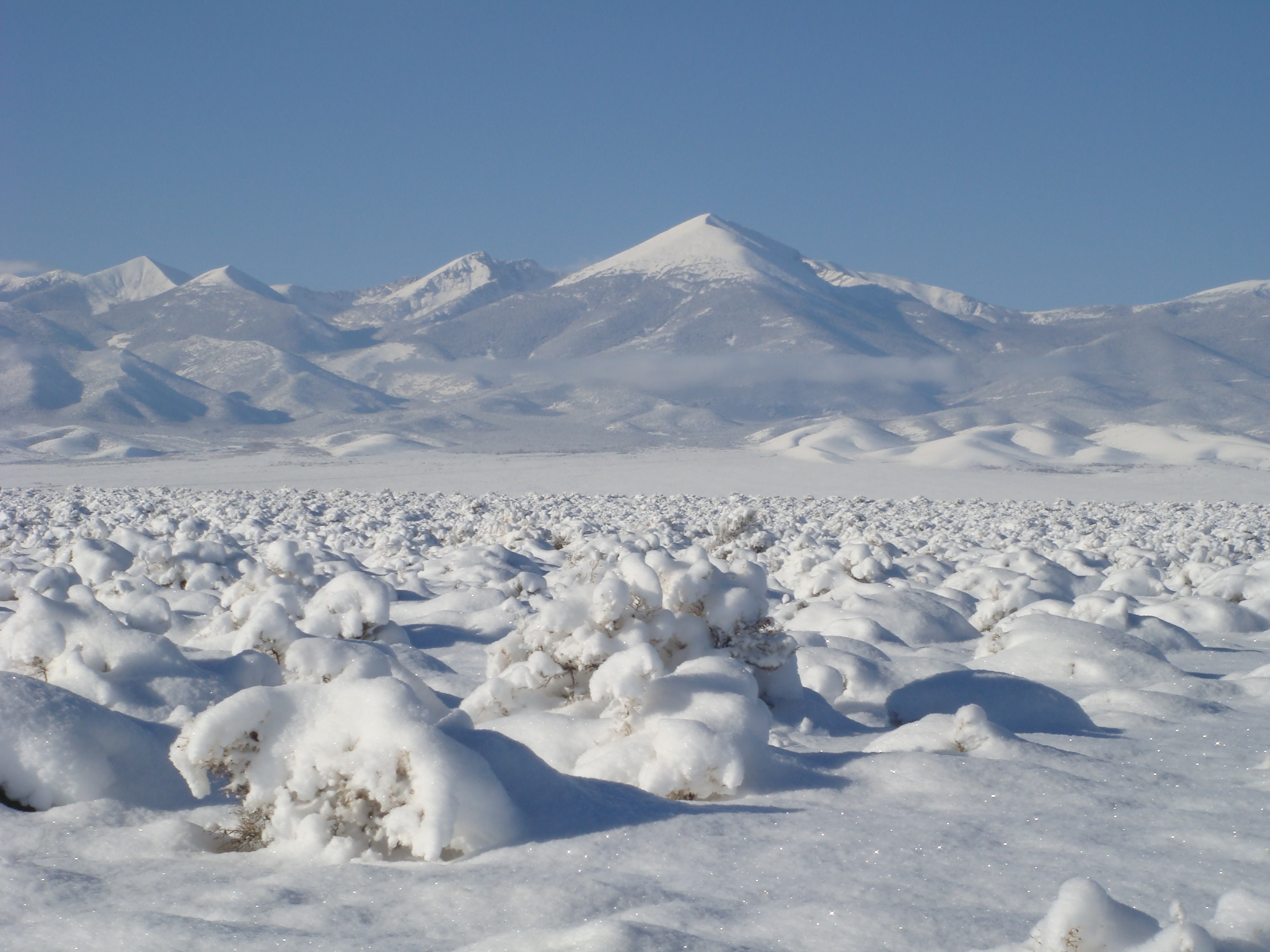 Snow blanketing Snake Valley and Wheeler Peak.